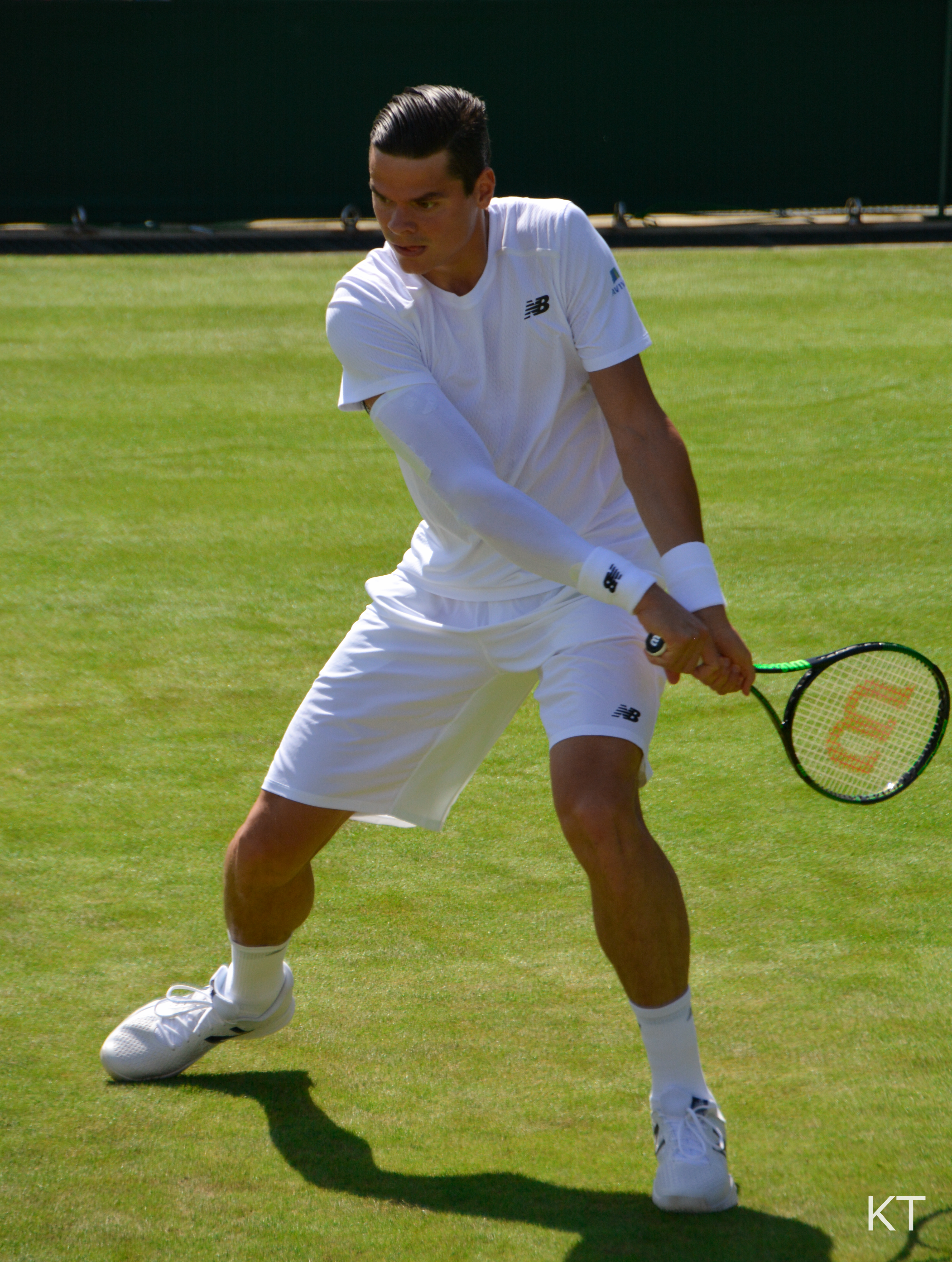 Milos Raonic v Daniel Gimeno-Traver. Day 1 of Wimbledon 2015.